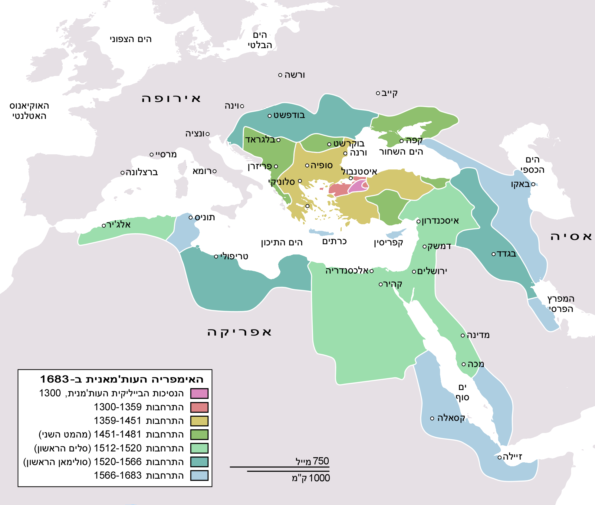 Map depicting the Ottoman Empire at its greatest extent, in 1683.